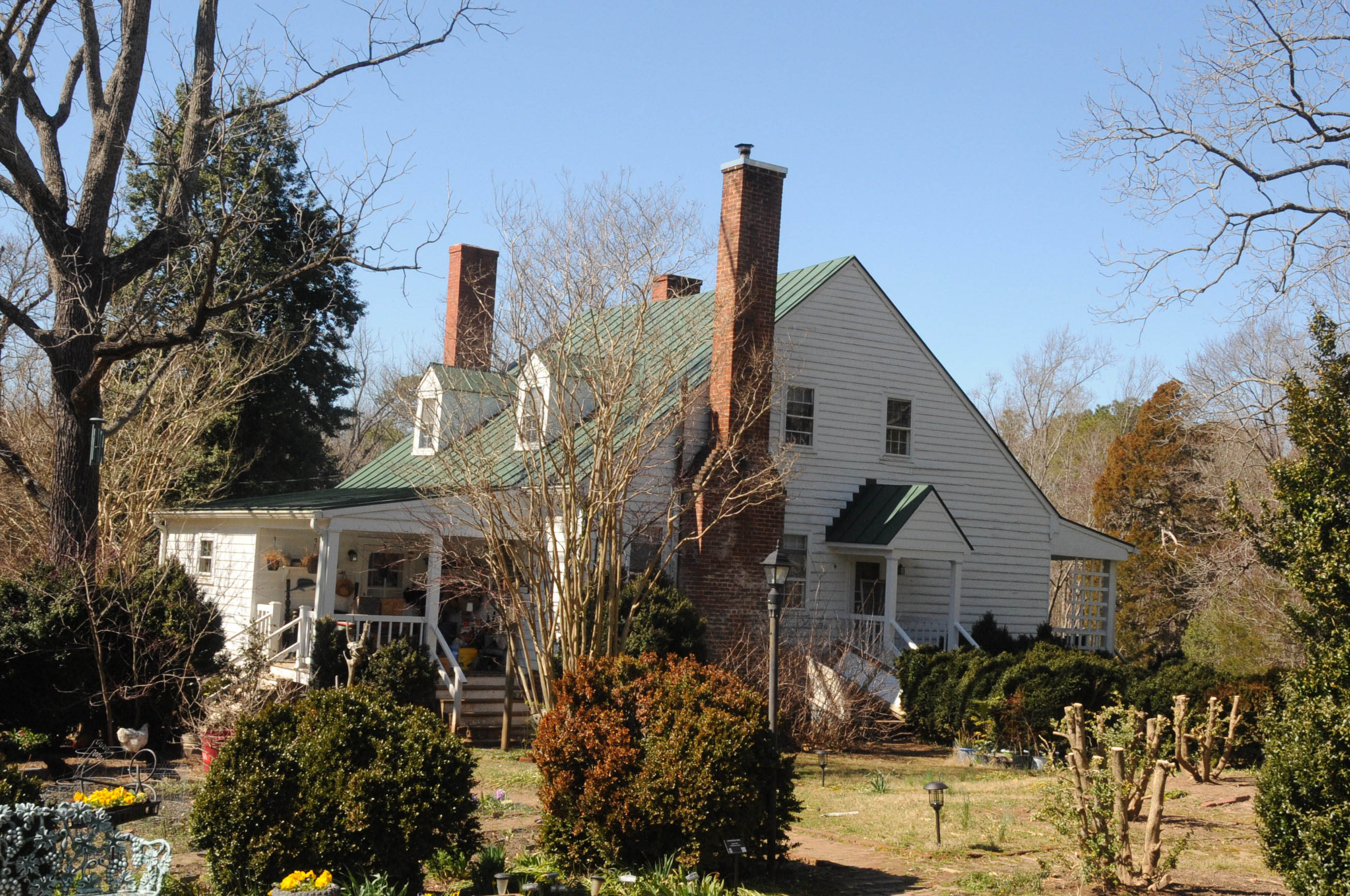 FREDERICKSBURG VICINITY; BUILT CIRCA 1755 BUT ENLARGED IN THE EARLY 19TH CENTURY AND IN 1950. IT A UTS UPON THE FREDERICKSBURG AND SPOTSYLVANIA NATIONAL MILITARY PARK.